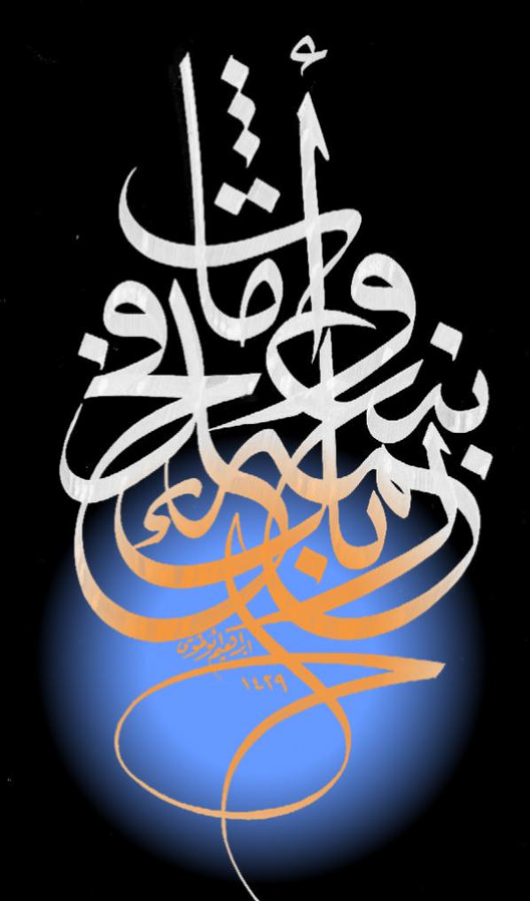 thuluth type